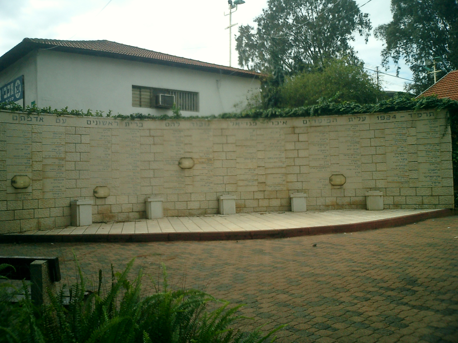 Monument of the establisher of Magdiel, Hod HaSharon, Israel.